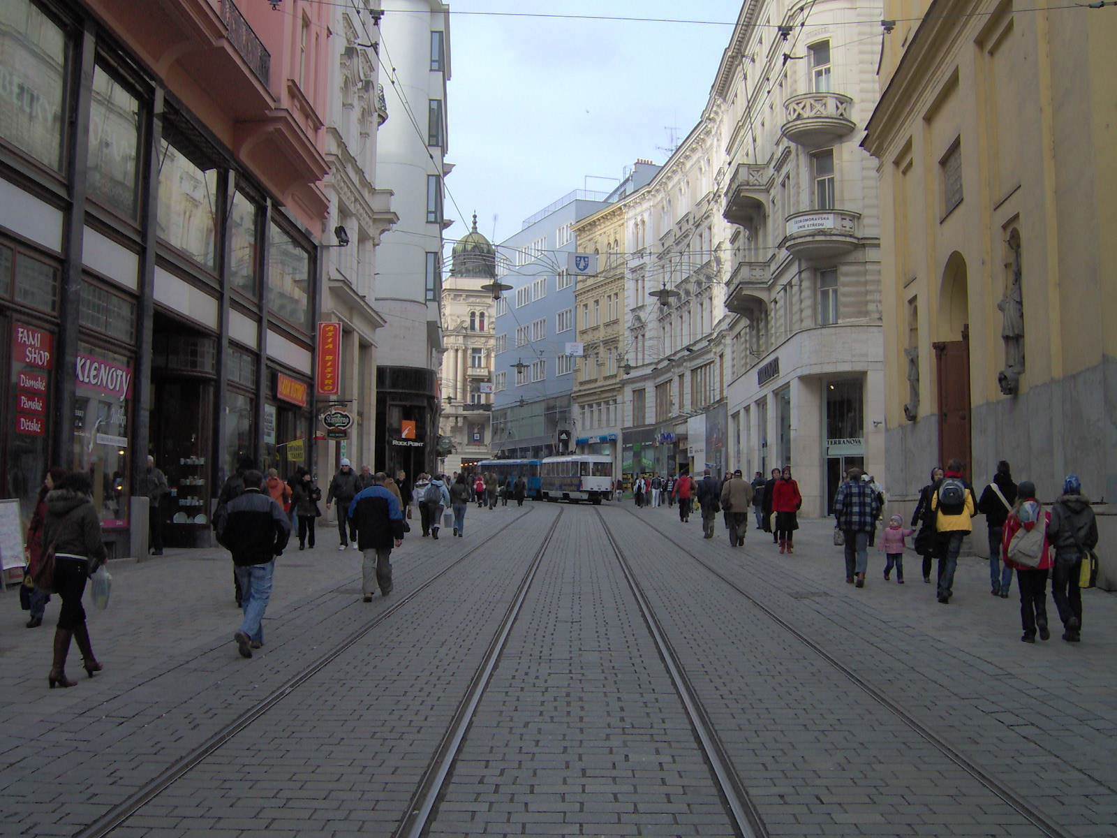 Tram track in Masaryk street, Brno, Czech Republic